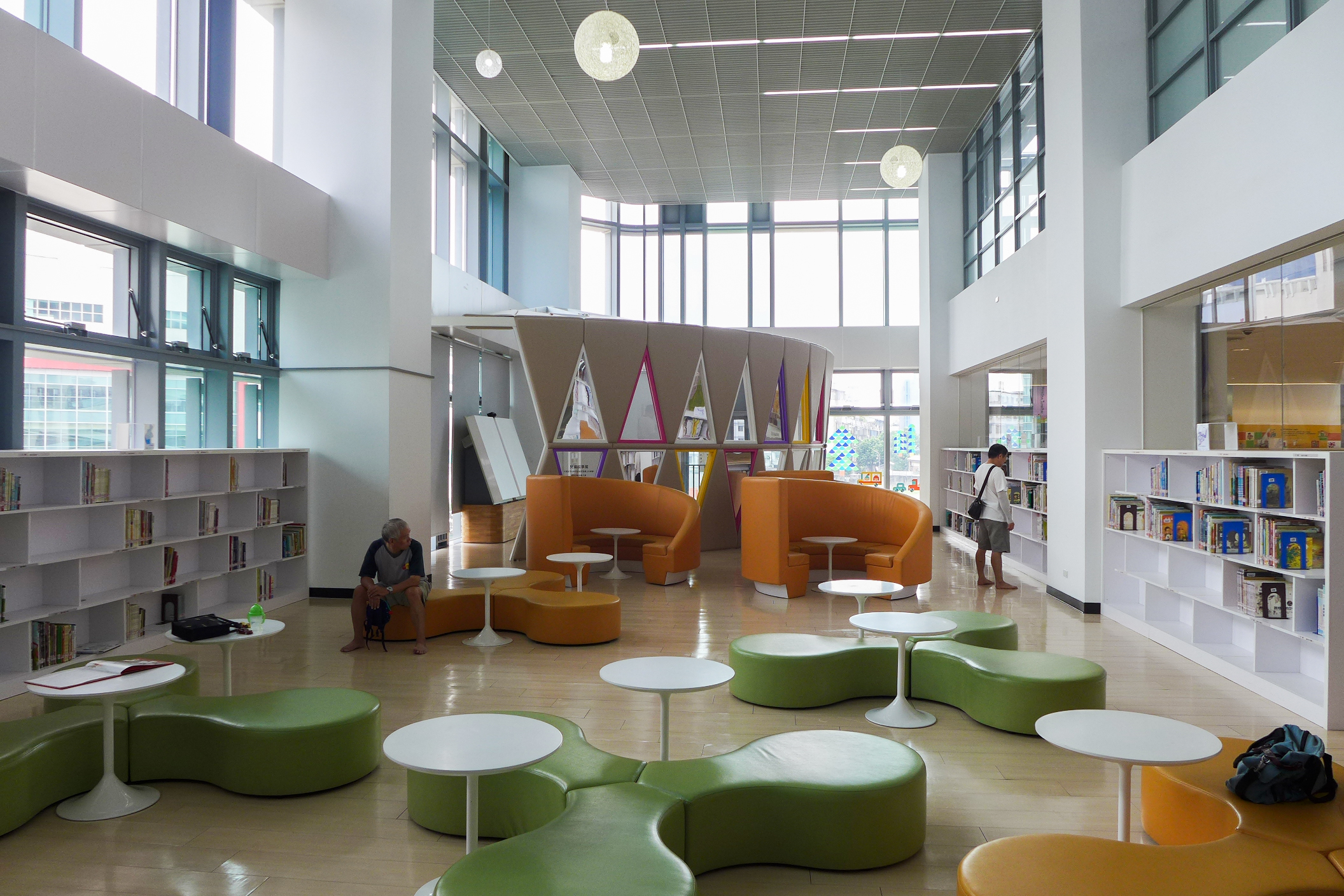 New Taipei City Main Library Level 3